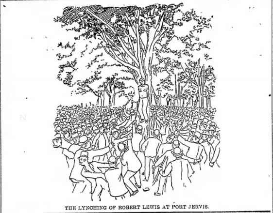 Robert Lewis, 1892 lynching victim